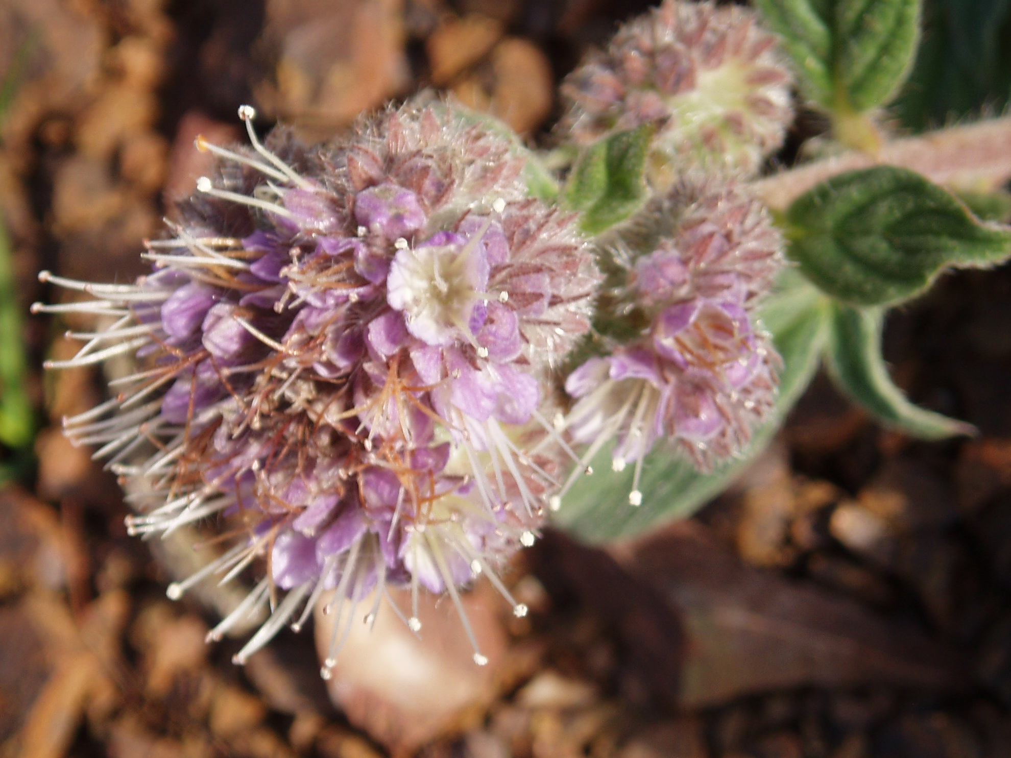 Phacelia californica at Marin Headlands, California, USA.